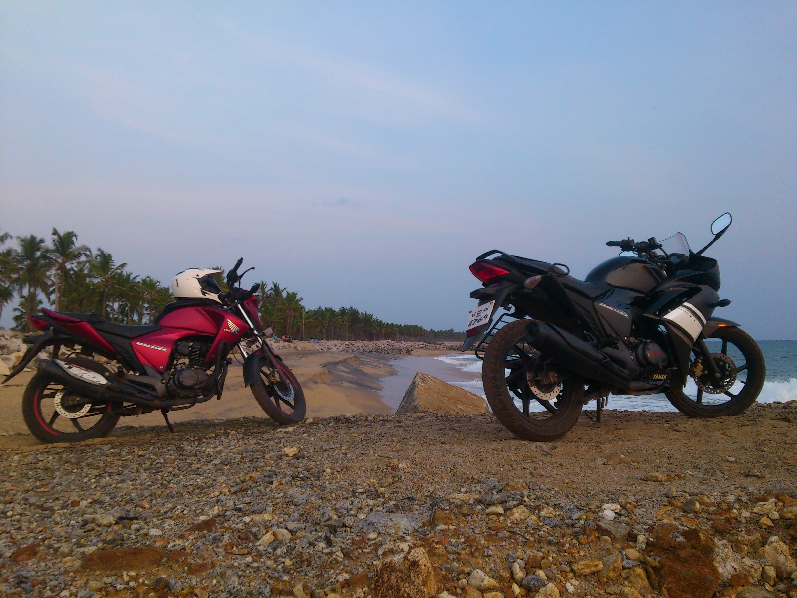 CB UNICORN DAZZLER AND MODIF